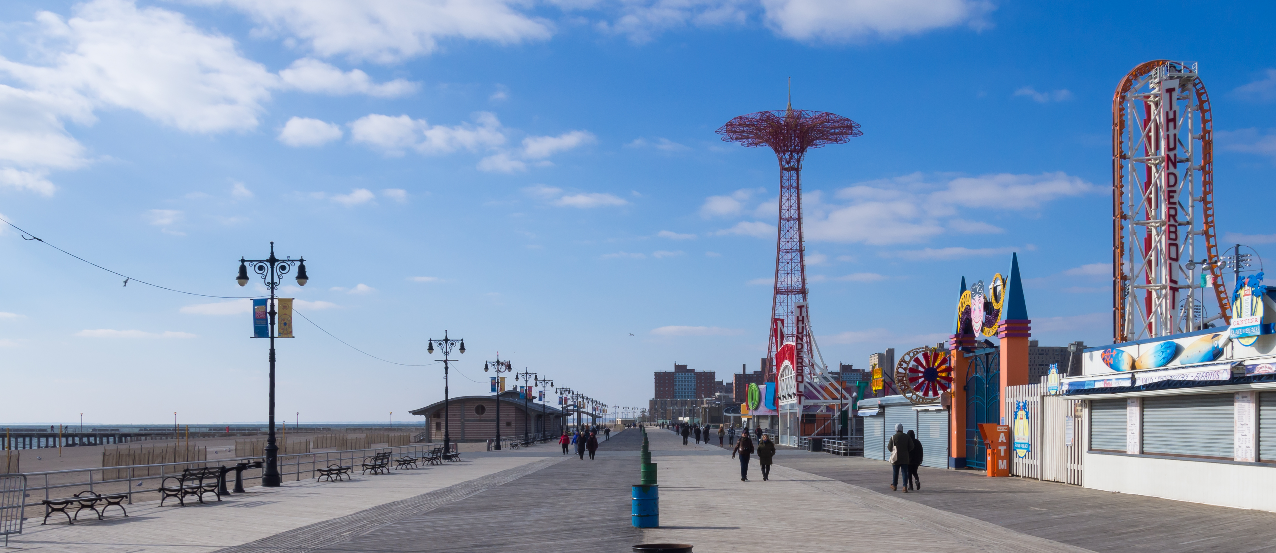 Coney Island's Riegelmann Boardwalk, looking west towards the Parachute Jump.